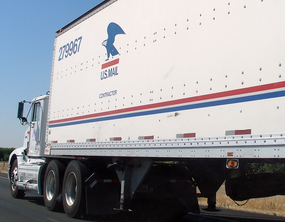 A United States Postal Service contractor-driven semi-trailer truck seen on Interstate 5 southbound, near Mendota.